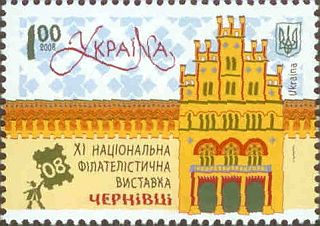 Stamp of Ukraine